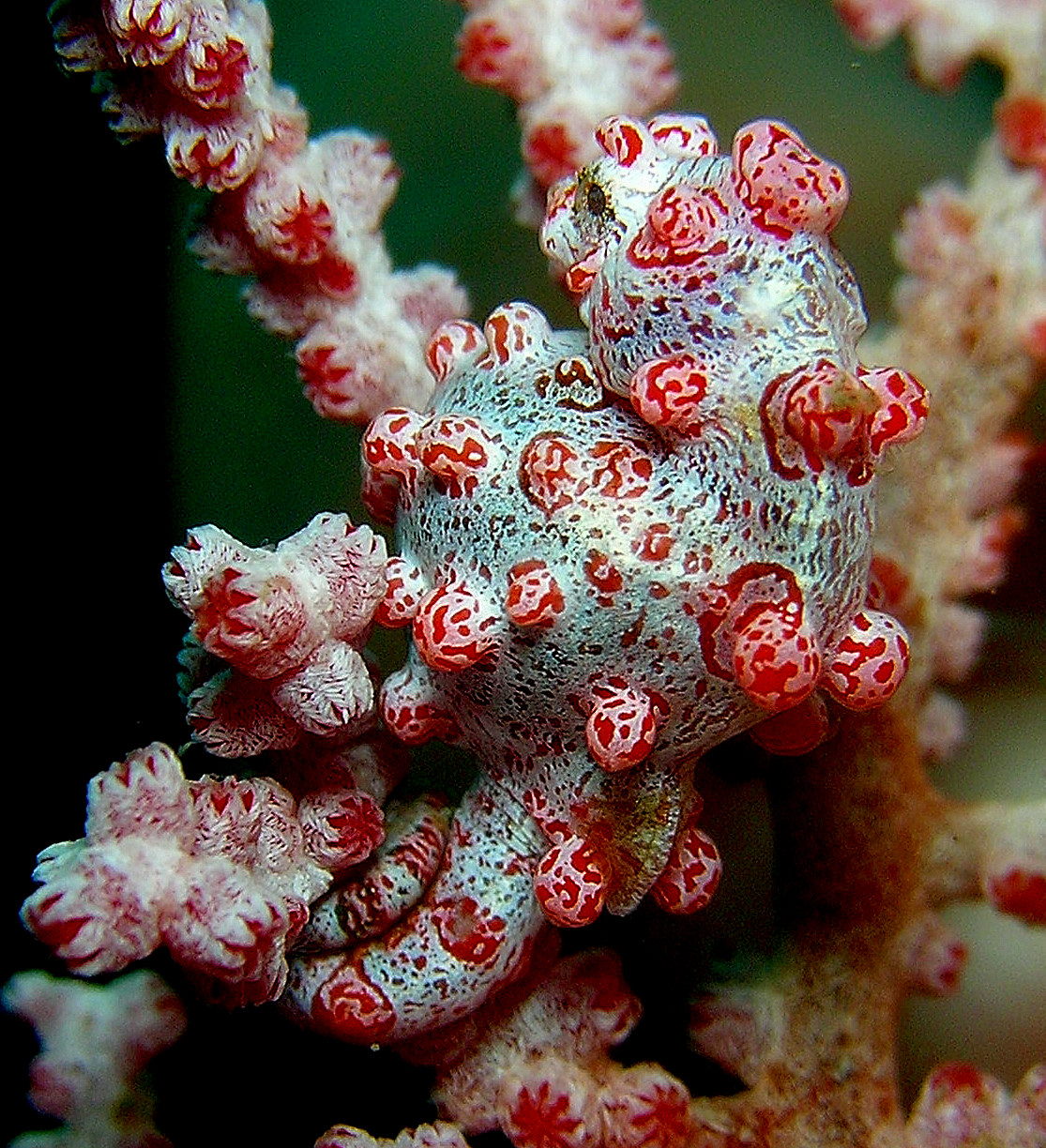 A Pygmy Seahorse (Hippocampus bargibanti)